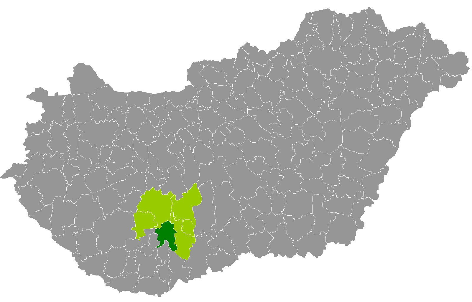 Location of Bonyhád District, Tolna, Hungary